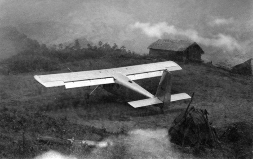 An "Air America" Helio U-10D Courier aircraft (s/n B-845?) in Laos on a covert mountaintop landing strip (LS) "Lima site".Note: according to this source [1] B-845 was destroyed in 1966.